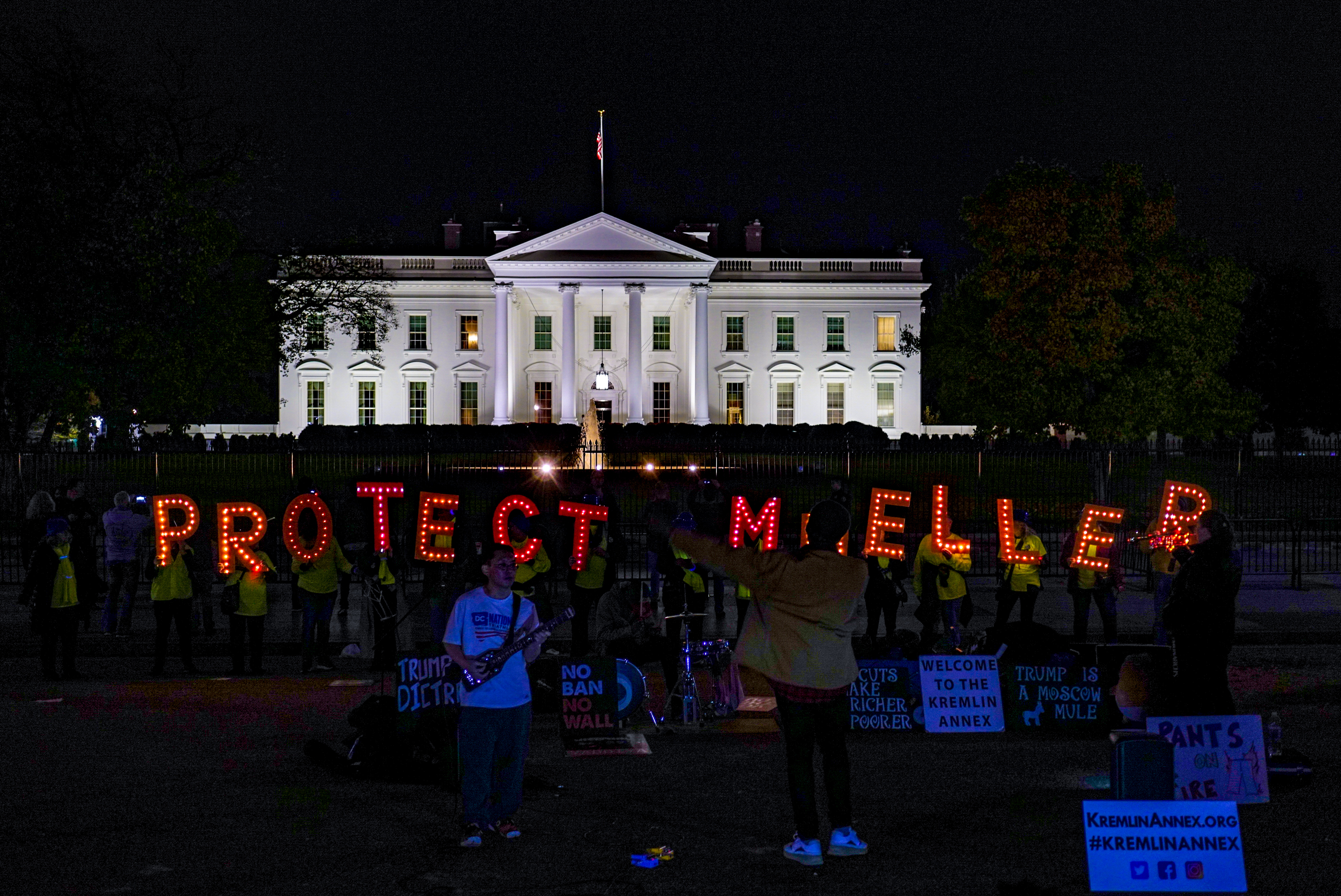 2018.11.07 Protect Muller at the White House, Washington, DC USA 07796